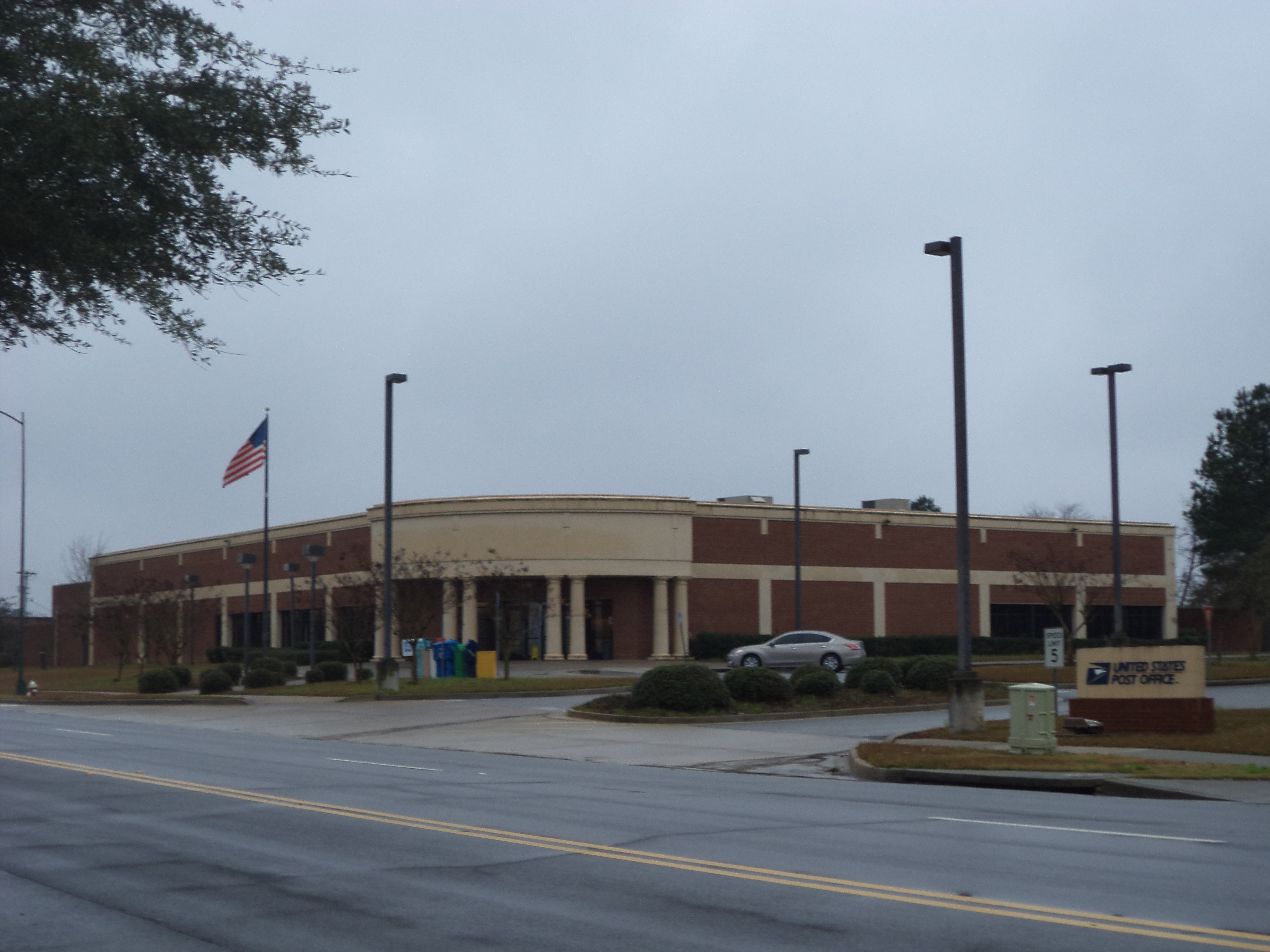 Moultrie Post Office, 215 N Main St, Moultrie, Colquitt County, Georgia